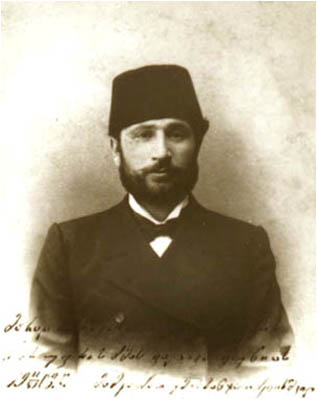 Portrait of Memed Abashidze - the famous Adjar public figure. Photo by N. Gaidabura. Batumi. 1903